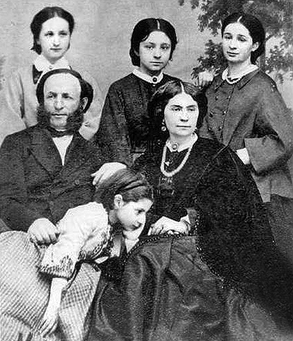 Ivan Aivazovsky with his wife Julia Graves and four daughters from left to right: Alexandra , Maria, Elena and Joanne